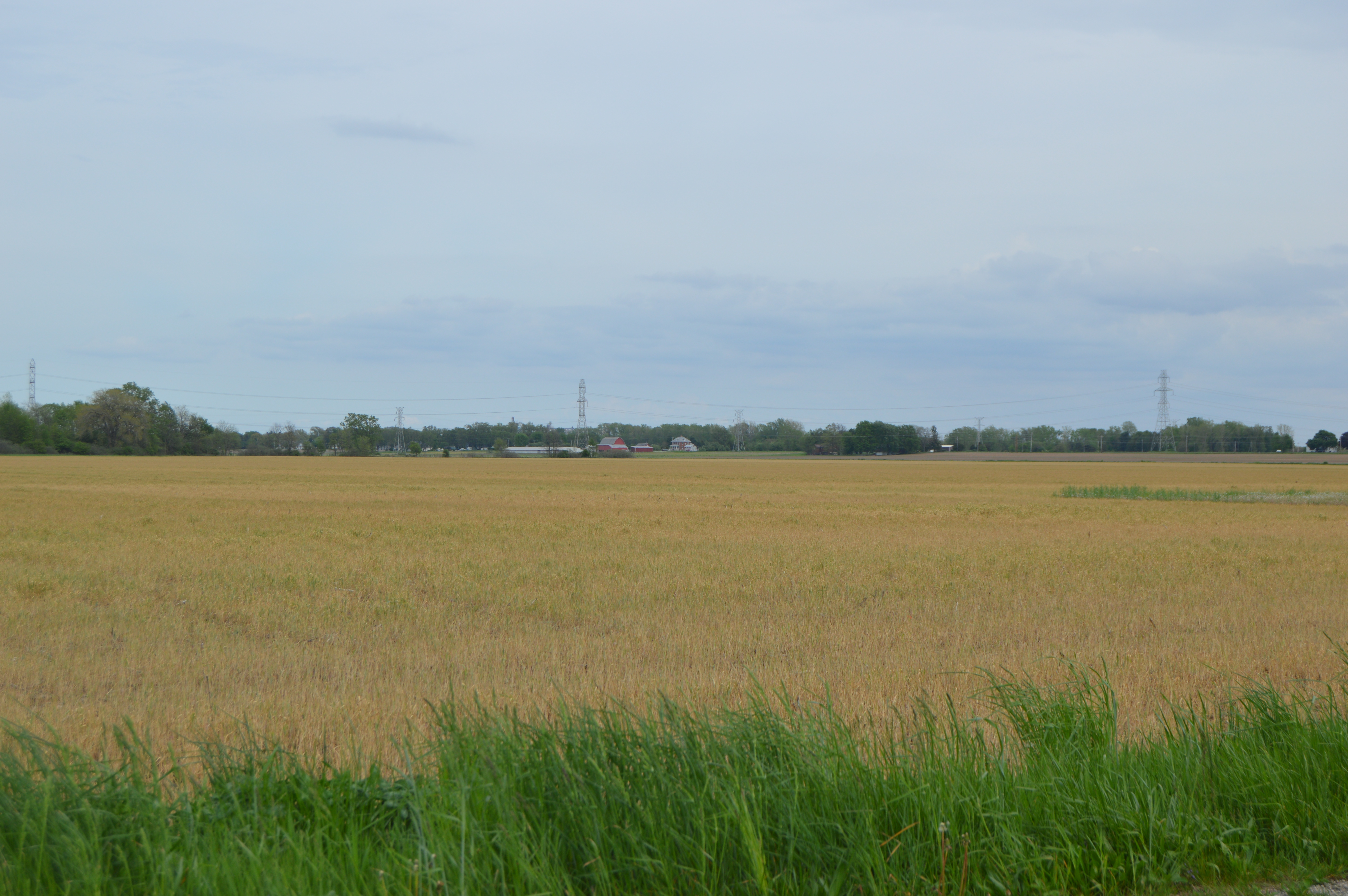 Fields on the eastern side of England Road northwest of Fostoria in Perry Township, Wood County, Ohio, United States.